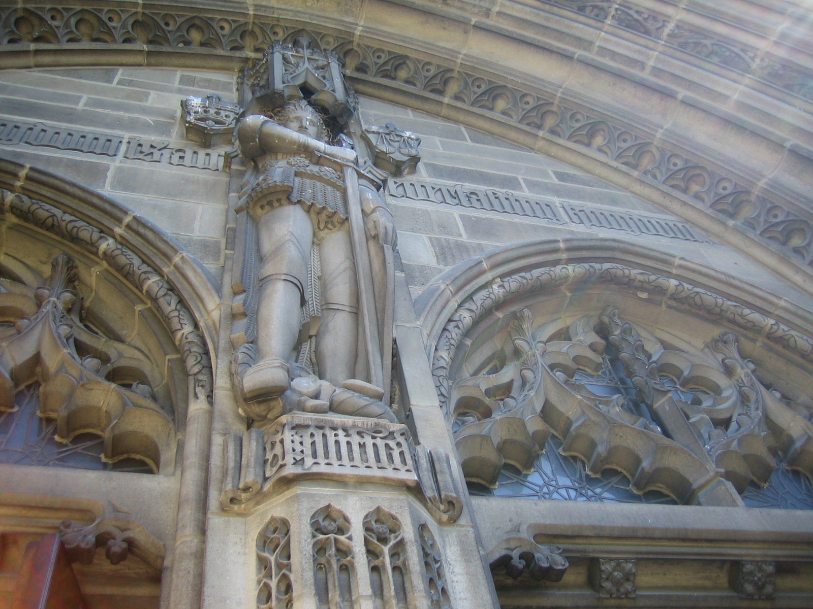 A close up at the sculpture at the entrance to the Rockefeller Chapel of U of Chicago